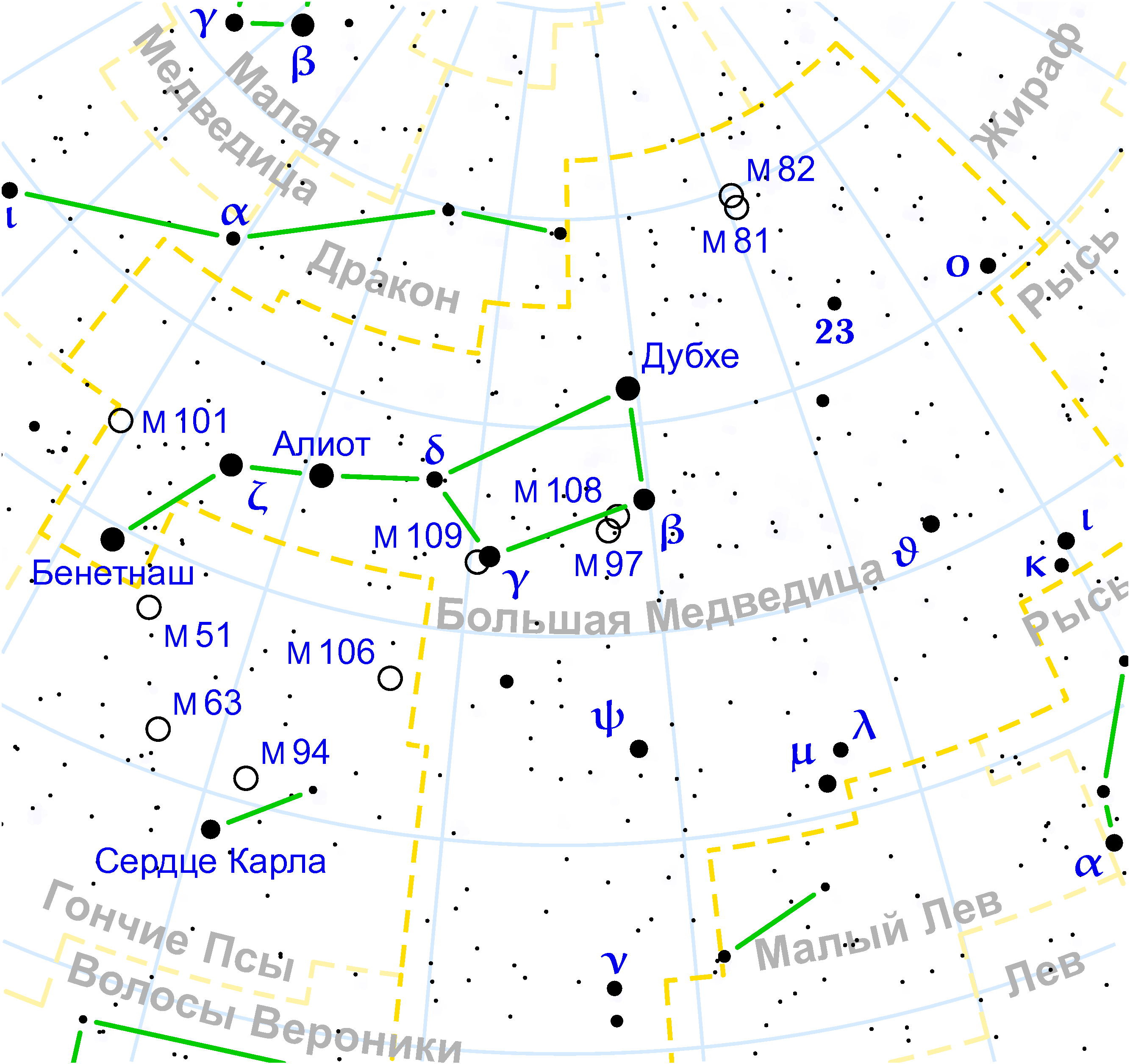 Ursa Major constellation map on Russian It was created using the programs PP3, Miktex 2.5, GhostScript and Gimp. At PP3's homepage, you also get the input scripts necessary for re-compiling the map. The yellow dashed lines are constellation boundaries, the red dashed line is the ecliptic, and the shades of blue show Milky Way areas of different brightness. The map contains all Messier objects, except for colliding ones. The underlying database contains all stars brighter than 6.5. All coordinates refer to equinox 2000.0. The map is calculated with the equidistant azimuthal projection (the zenith being in the center of the image). The north pole is to the top. The (horizontal) lines of equal declination are drawn for 0°, +10°, +20° etc. The lines of equal rectascension are drawn for all 24 hours. Towards the rim there is a very slight magnification (and distortion).